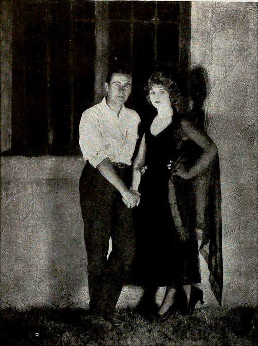 Director Rex Ingram and his wife actress Alice Terry, before leaving for the filming of the American South Seas romantic drama film Where the Pavement Ends (1923) on location in Cuba, from page 66 of the October 1922 Photoplay.